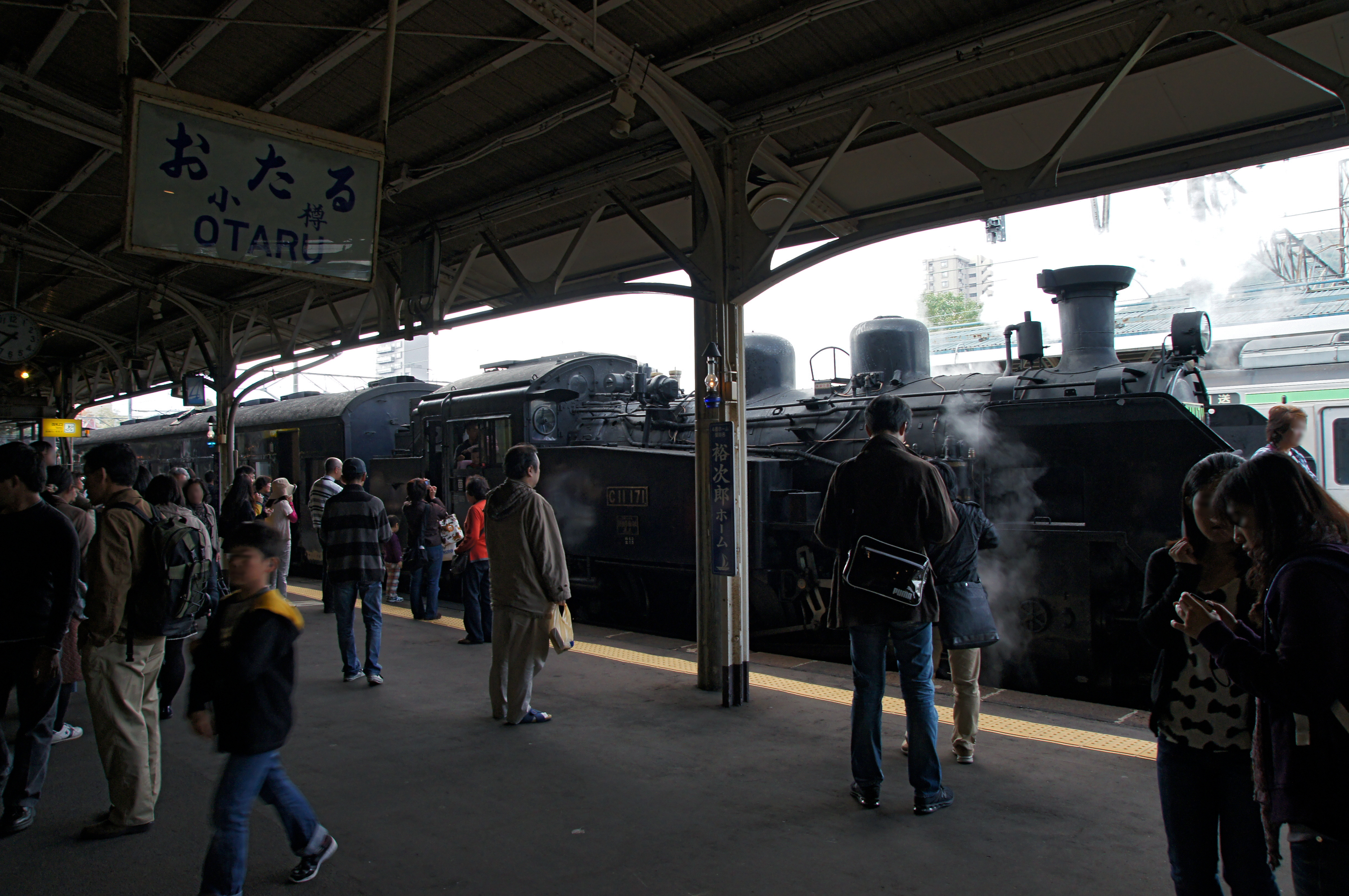 Otaru Station in Otaru, Hokkaido prefecture, Japan